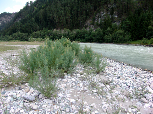 Coppice with Myricaria germanica in Pfunds, Tirol